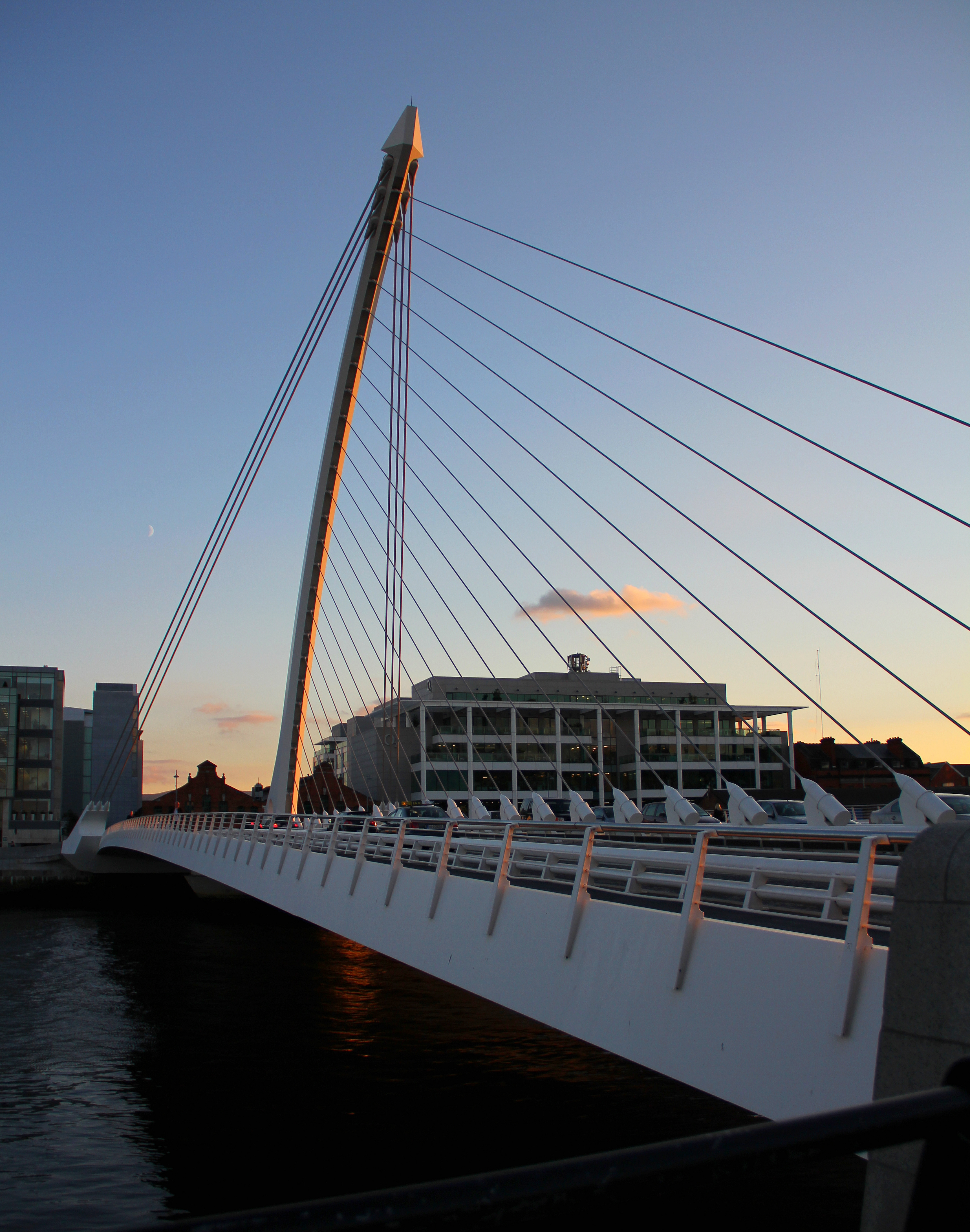 The Samuel Beckett Bridge in Dublin, Ireland, in the evening.